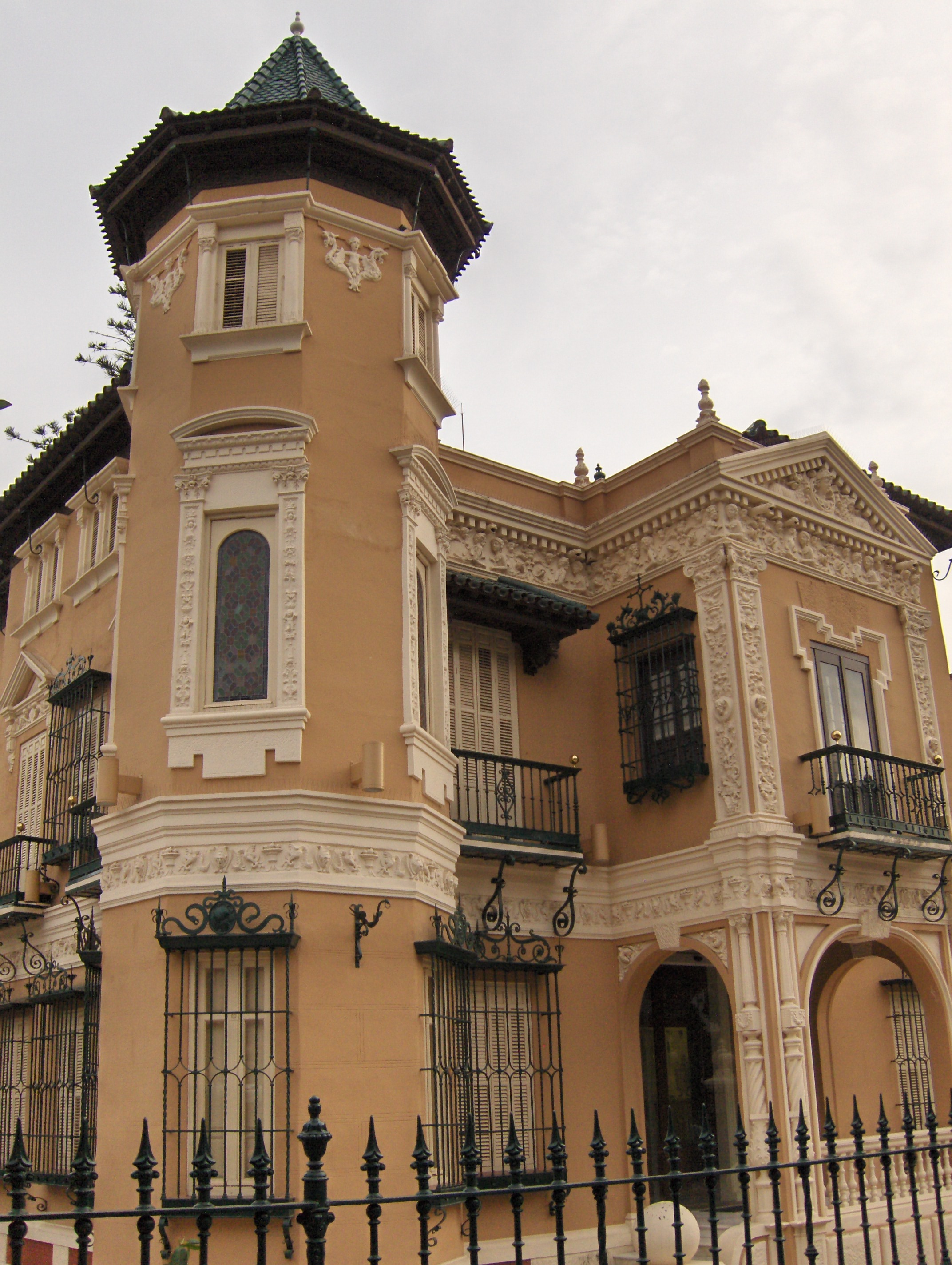 Villa Onieva.